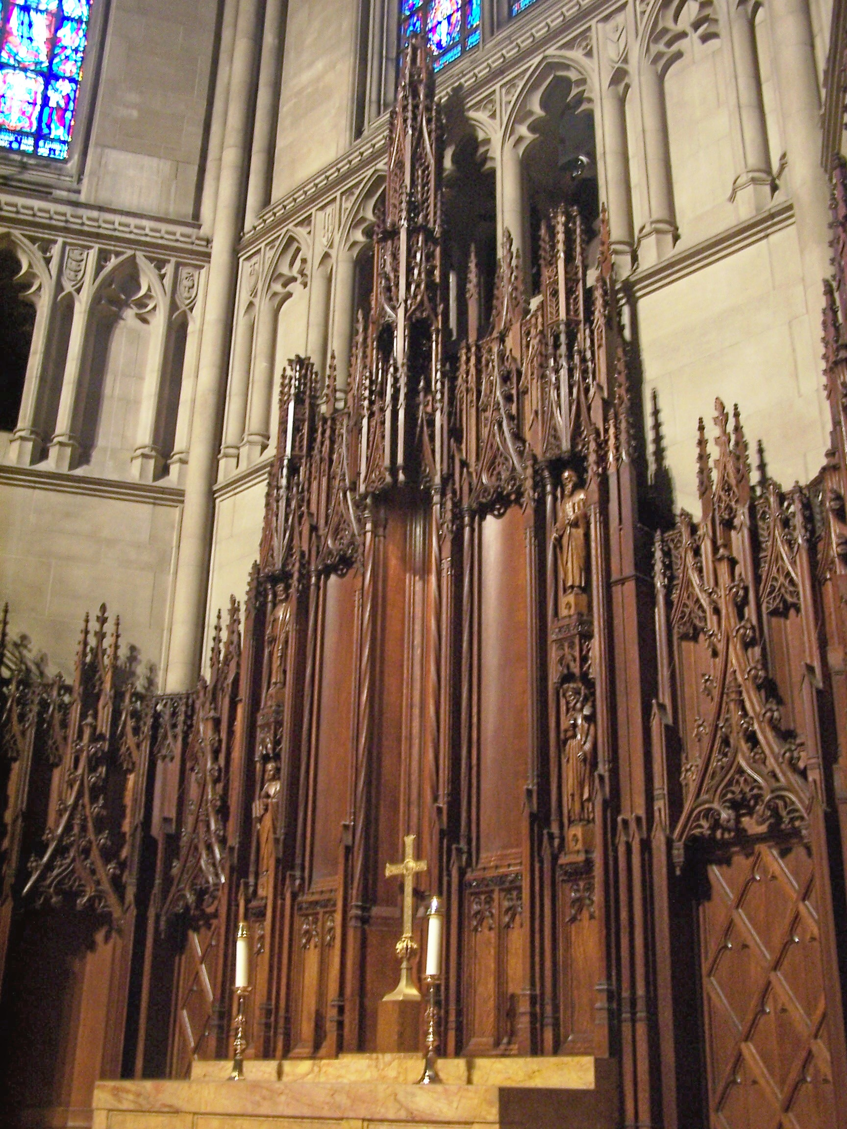 The carving in the chancel was designed by Charles Marcus Osborn, formerly in the employ of Ralph Adams Cram. While in Pittsburgh for the Heinz Chapel work he was also designing the chancel furniture for Shadyside Presbyterian Church's 1938 sanctuary remodeling. This is according to a letter in the Shadyside archives from a member who was a distant cousin.